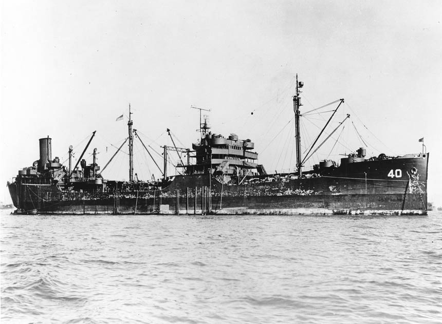 The United States Navy fleet oiler USS Lackawanna (AO-40) in San Francisco Bay after her return from the Western Pacific, October 1945.